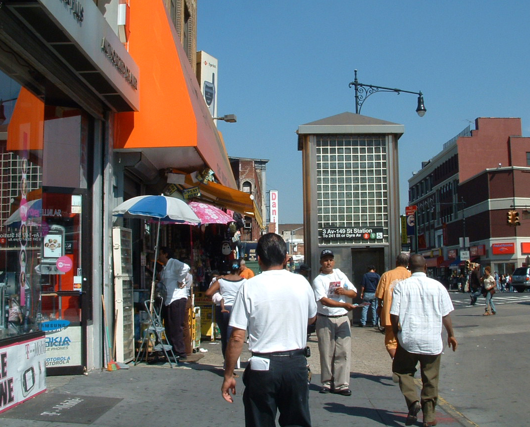 I took this photo myself. Category:Images of the Bronx Summary I took this photo myself.